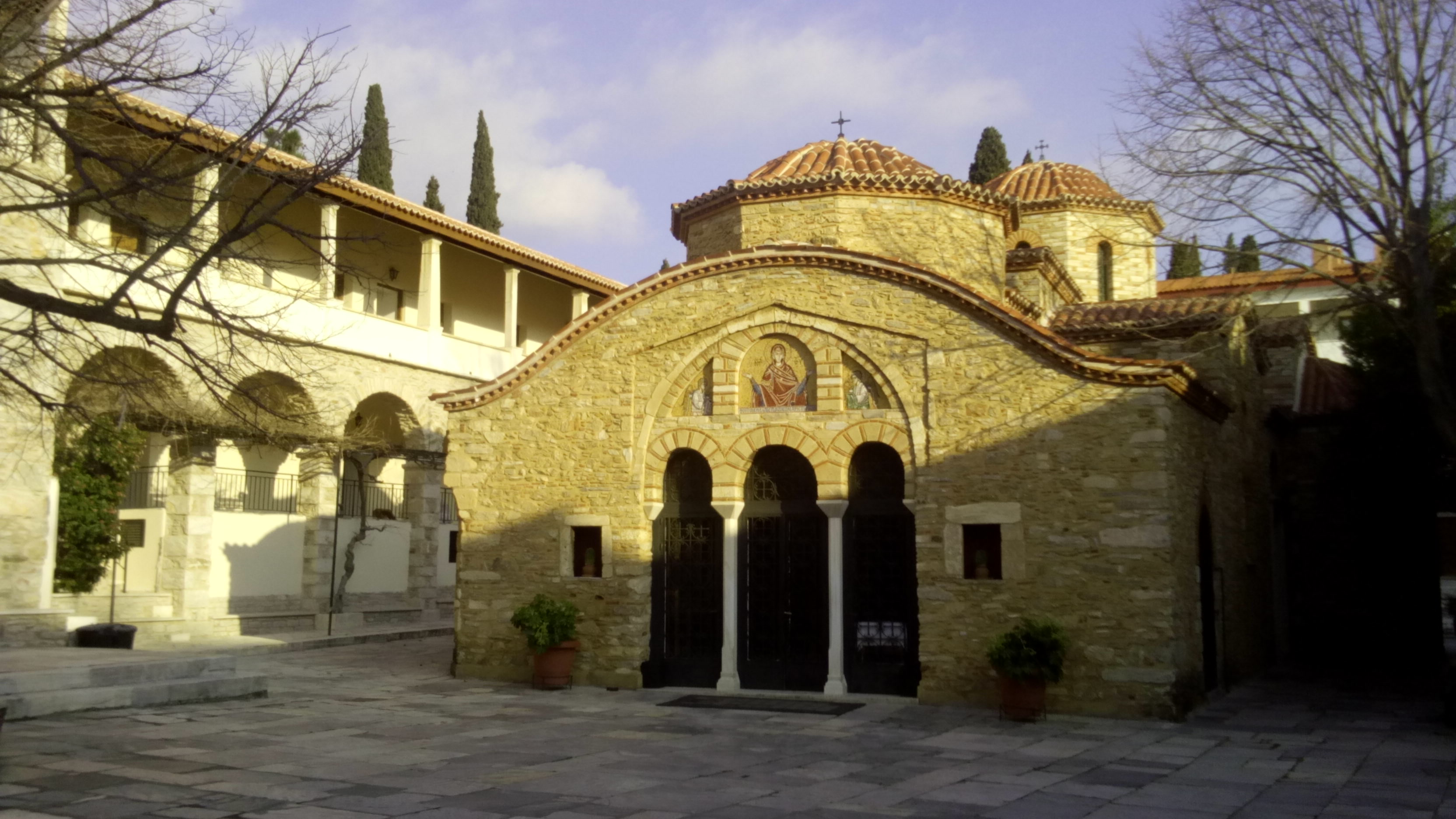 Holy Monastery of Penteli (Dormition of Mother of God)